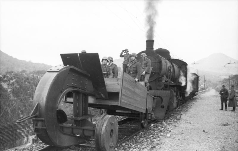 Information added by Wikimedia users.